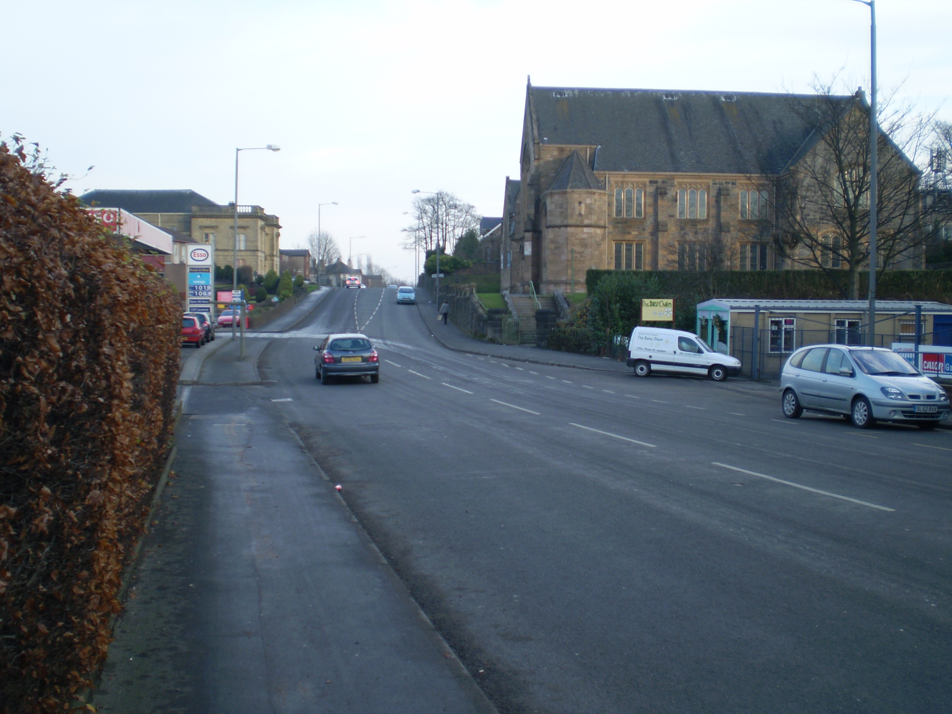 Point at which the villages of Stenhousemuir and Larbert merge